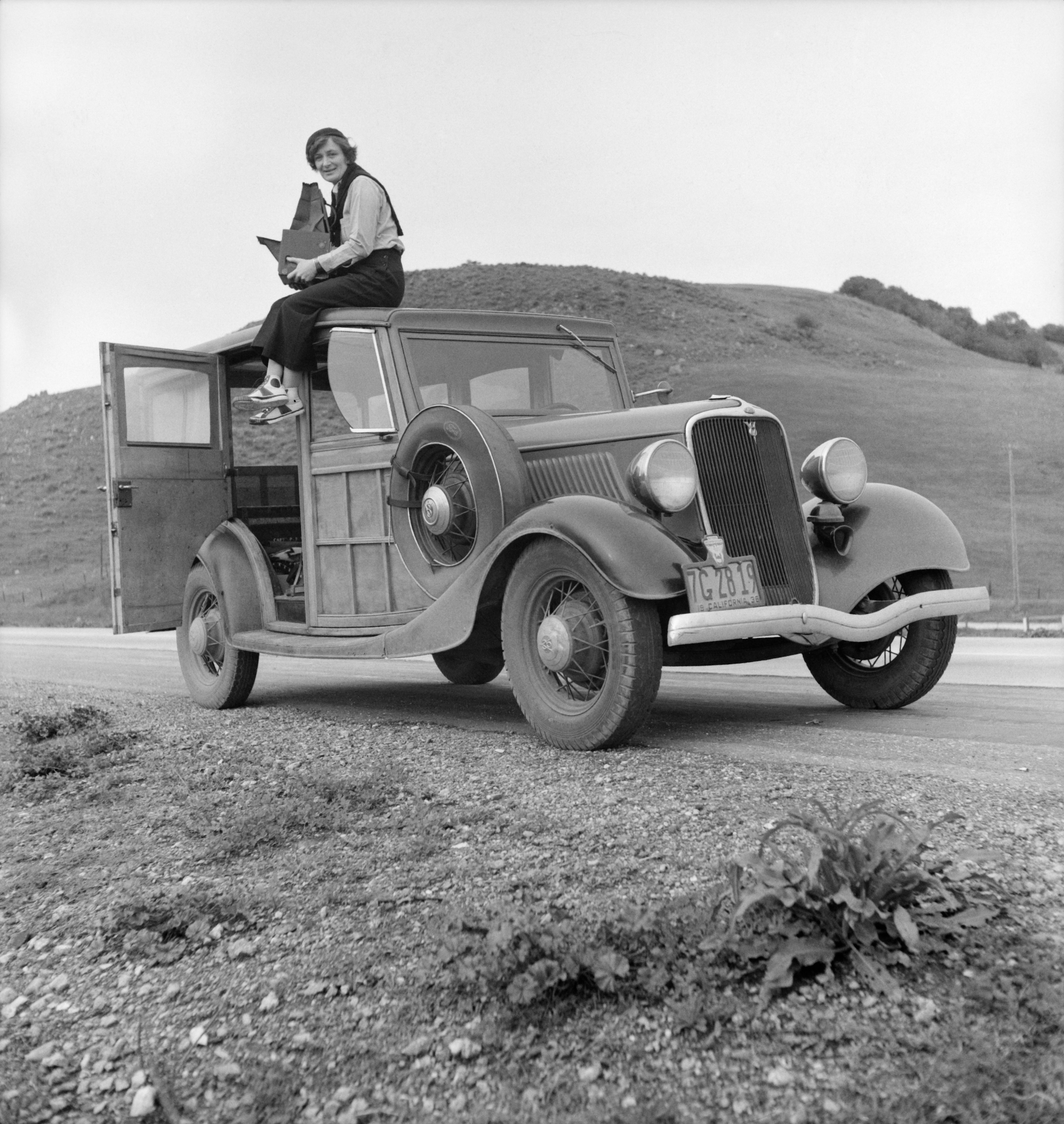 Dorothea Lange, Resettlement Administration photographer, sitting atop a Ford Model 40 in California. In her lap is a Graflex 4×5 Series D camera.